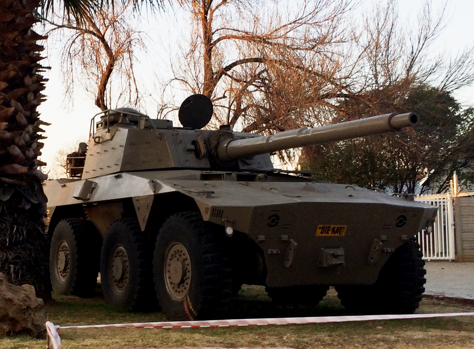 Rooikat armoured car at 1 Special Service Battalion, Tempe Base - Bloemfontein.